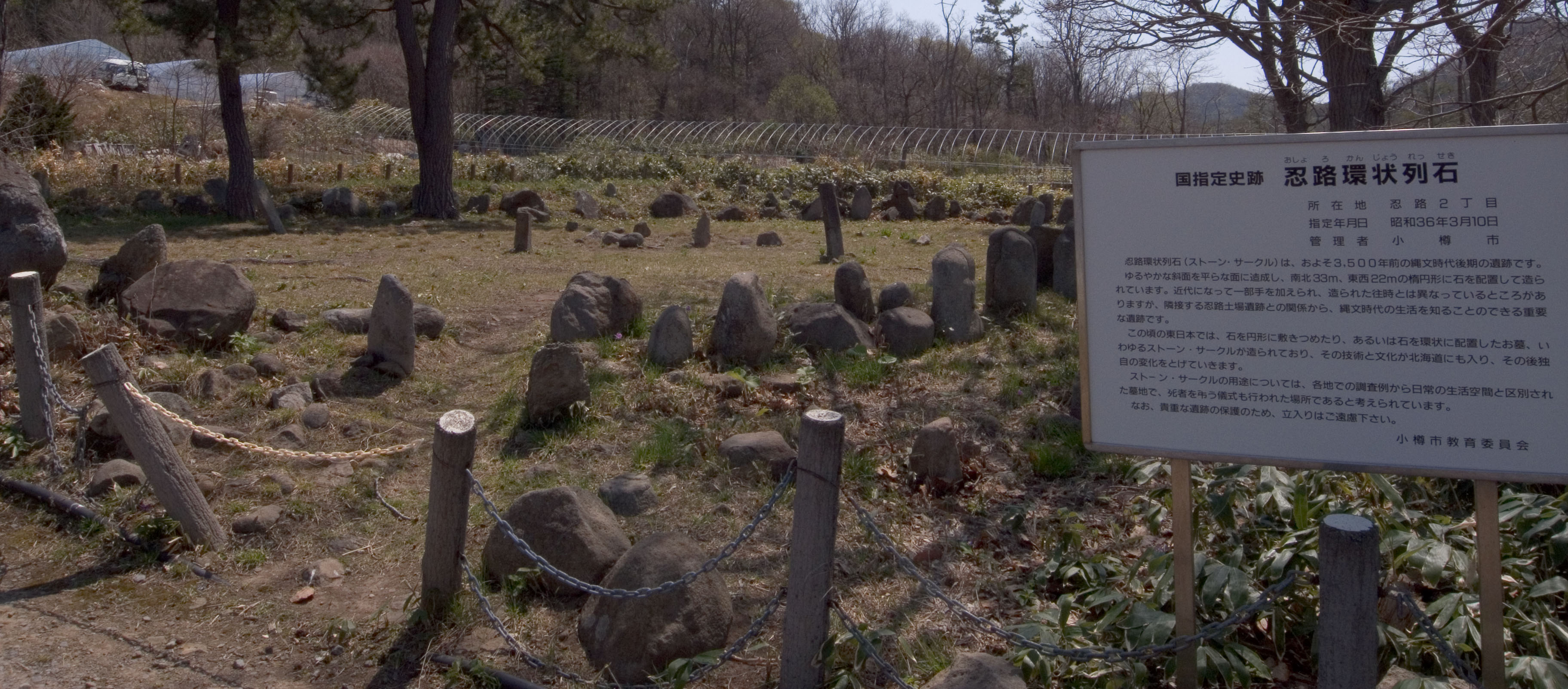 Oshoro stone circle, Otaru, Hokkaido, Japan